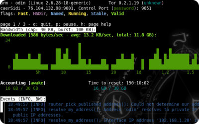 This is a screenshot from an application I made (arm). I hereby release the image under the Creative Commons v3 (A, SA). SreeBot (talk) 07:23, 4 August 2011 (UTC)